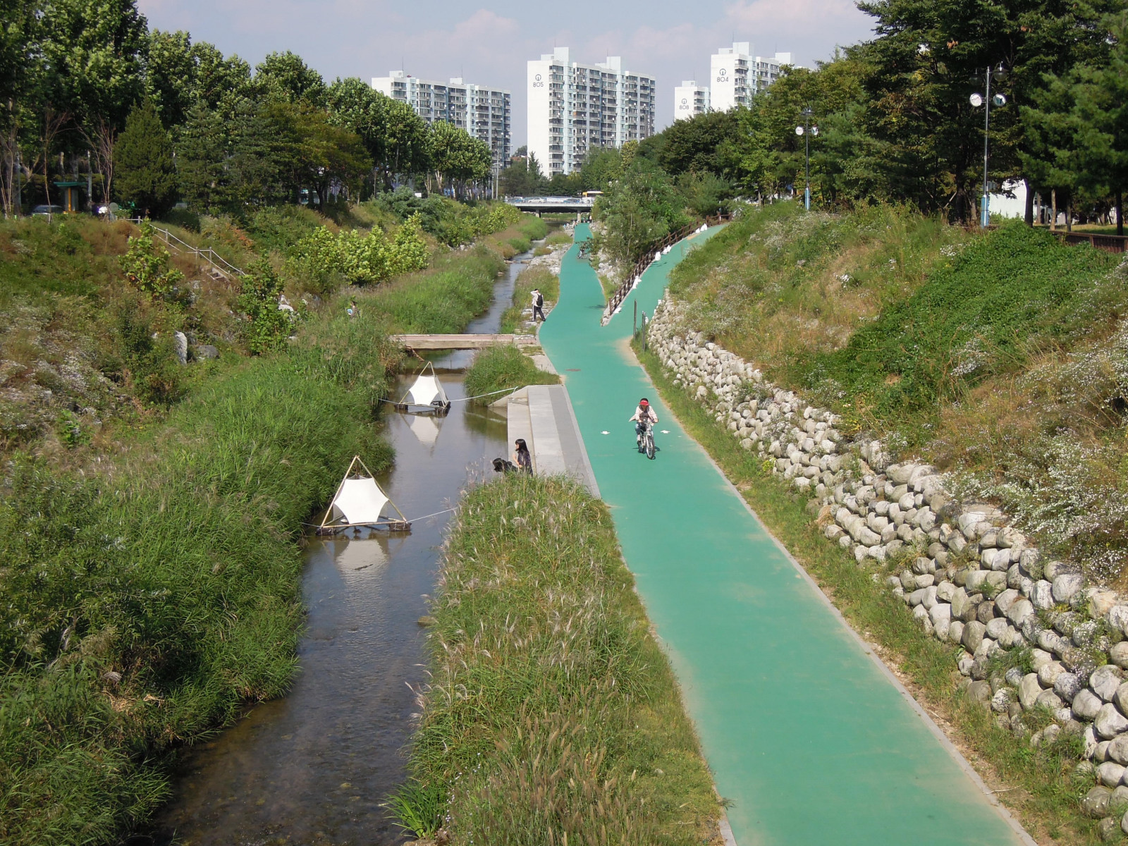 Gwacheon, residential area